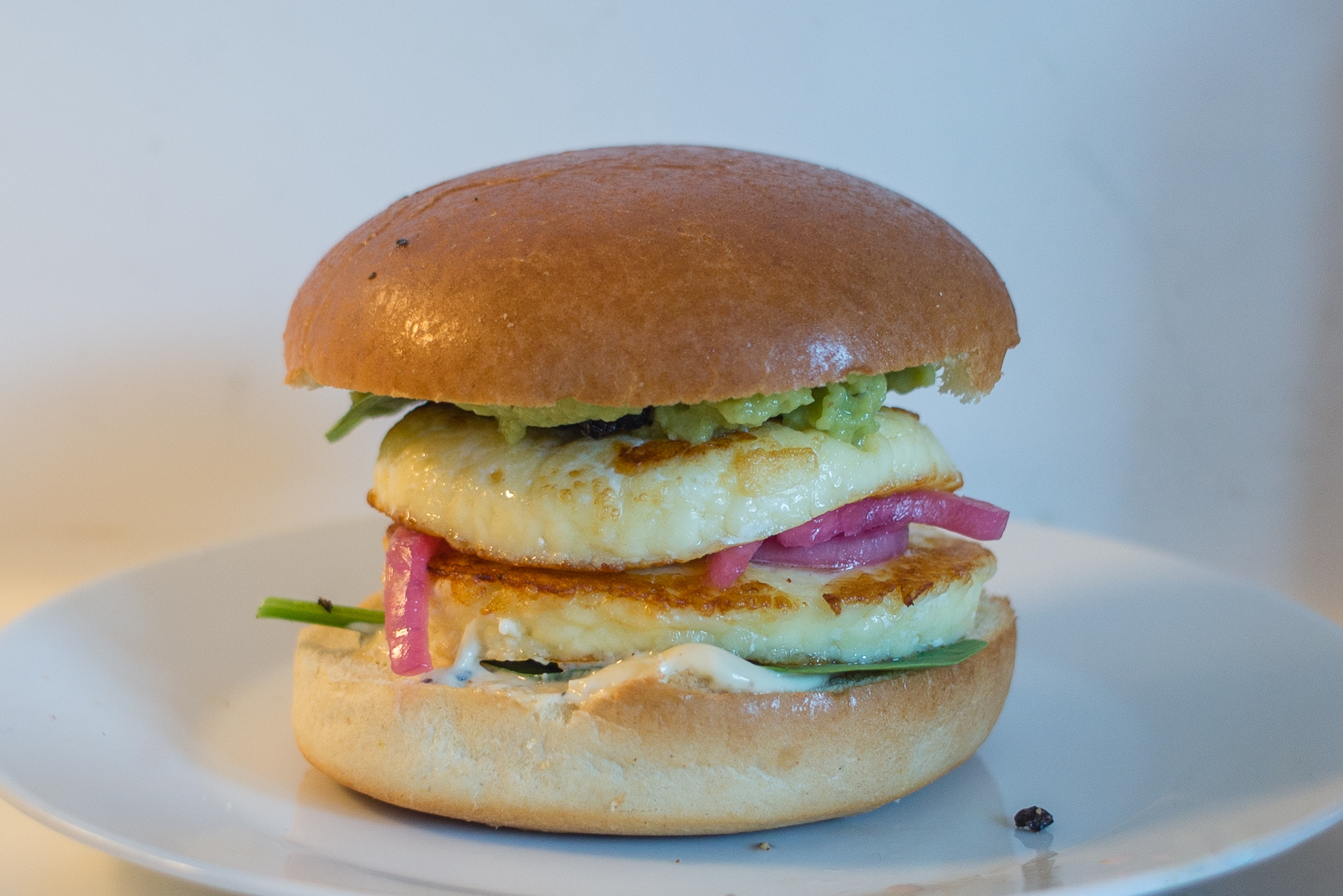 Veggie burger with swedish eldost (chess), truffle mayonnaise, pickled red onion, spinach and guacamole.